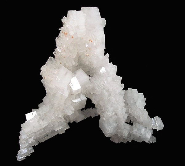 Halite Locality: PCS mine, Rocanville, Saskatchewan, Canada (Locality at ) Naturally crystallized halite. 16.8 x 14.9 x 5.2 cm